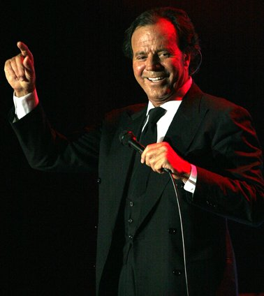 All time best-selling Spanish singer Julio Iglesias.Showbizz